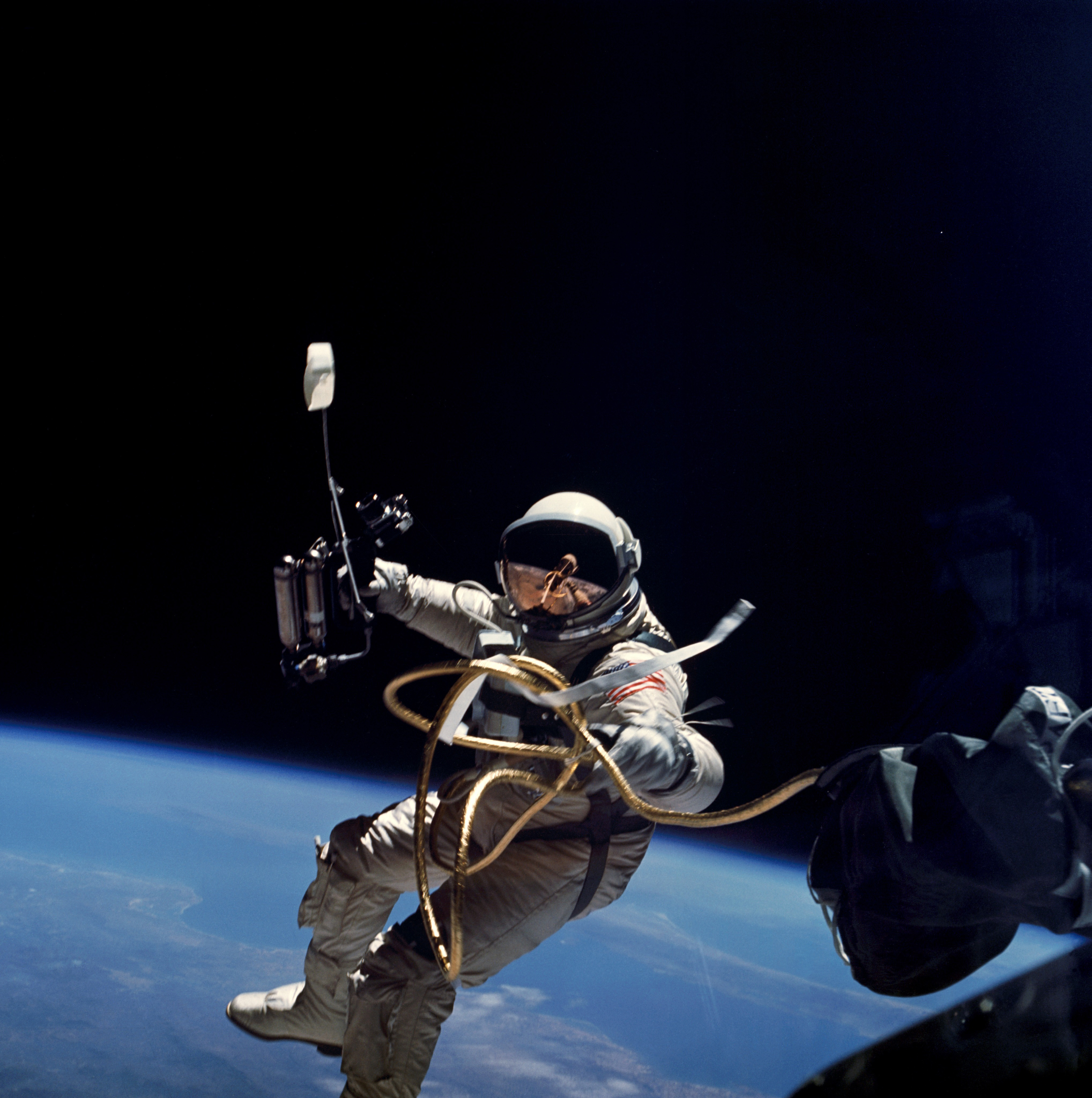 Astronaut Edward H. White II, pilot for the Gemini-Titan 4 space flight, floats in space during America's first spacewalk. The extravehicular activity (EVA) was performed during the Gemini 4 mission on June 3, 1965. White spent 23 minutes maneuvering around his spacecraft as Jim McDivitt remained inside the spacecraft. White is attached to the spacecraft by a 25-ft. umbilical line and a 23-ft. tether line, both wrapped in gold tape to form one cord. In his right hand, White carries a Hand-Held Self Maneuvering Unit (HHSMU), which he used to help move him around the weightless environment of space. The visor of his helmet is gold plated to protect him from the unfiltered rays of the sun. The spacewalk started at 3:45 p.m. EDT on the third orbit when White opened the hatch and used the hand-held manuevering oxygen-jet gun to push himself out of the capsule. The EVA started over the Pacific Ocean near Hawaii and lasted 23 minutes, ending over the Gulf of Mexico. Initially, White propelled himself to the end of the 8-meter tether and back to the spacecraft three times using the hand-held gun. After the first three minutes the fuel ran out and White maneuvered by twisting his body and pulling on the tether. In a photograph taken by Commander James McDivitt taken early in the EVA over a cloud-covered Pacific Ocean, the maneuvering gun is visible in White's right hand.